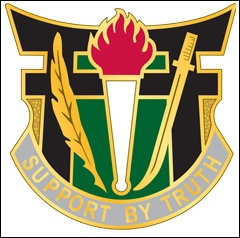 From the IOMH